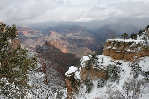 Winter view of the Grand Canyon at Bright Angel Trail.